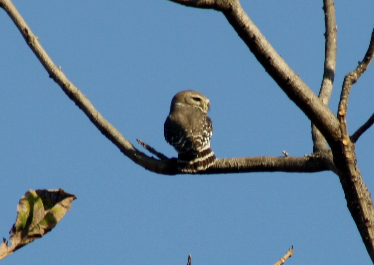 Forest Owlet Heteroglaux blewitti 2 Melghat Tiger Reserve Maharashtra 14 January 2013 (22)